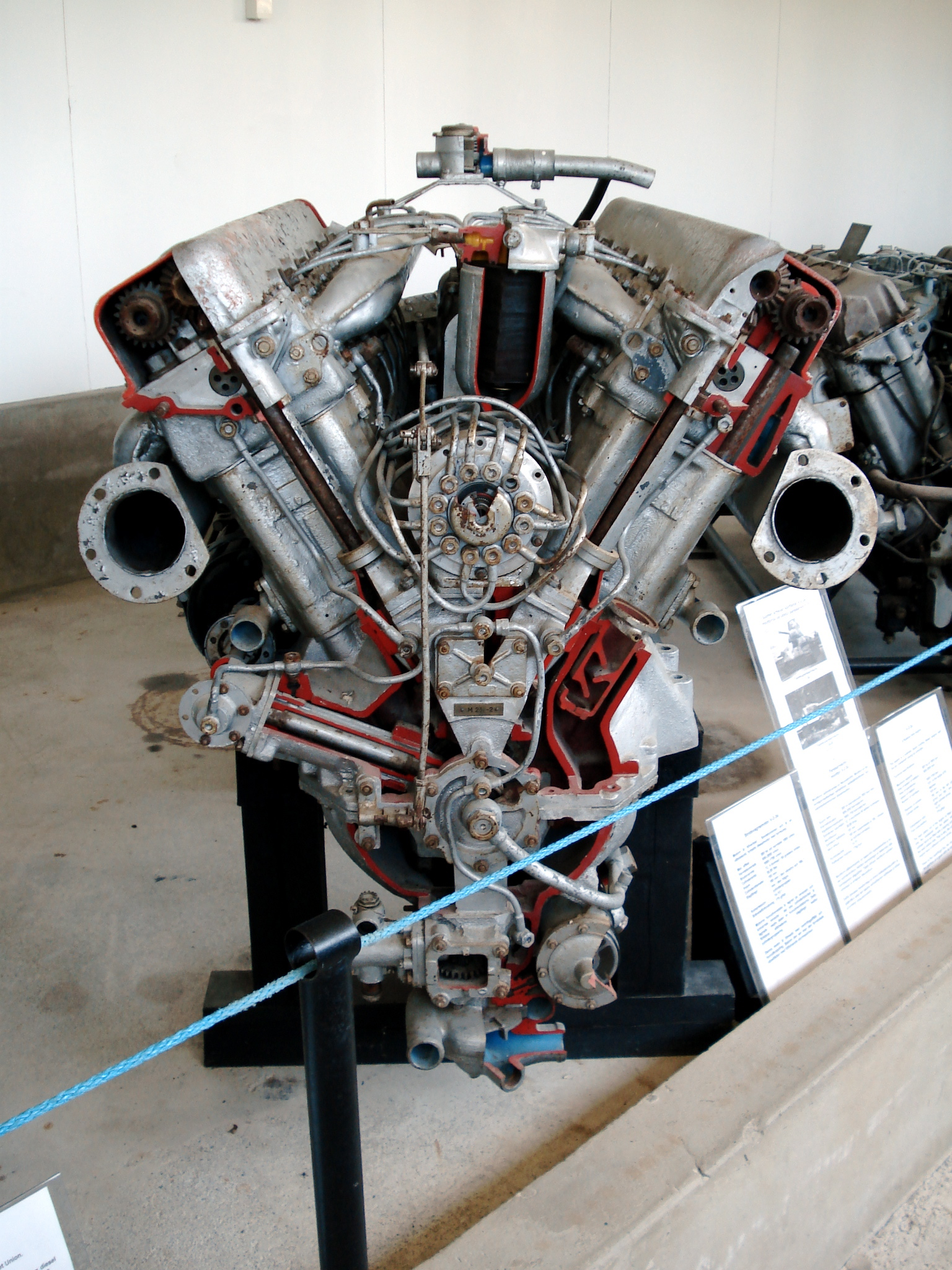 Engine (V-2-34) of Soviet T-34 tank displayed in Finnish Tank Museum (Panssarimuseo) in Parola. Some parts have been removed or cut to show the inner workings. Photo taken on July 14, 2006. Source: Photo by me, User:Balcer.